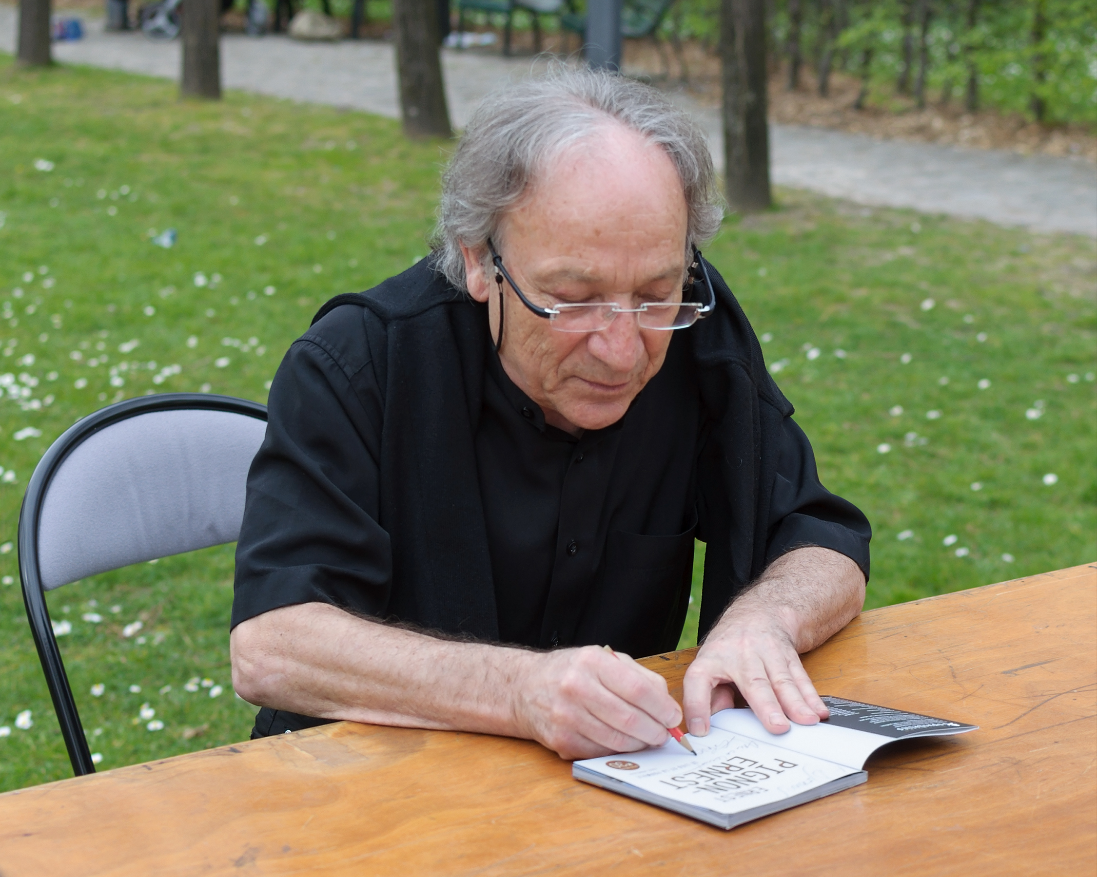 Ernest Pignon-Ernest, in autograph session at the Maison des Arts ('House of Arts') in Malakoff, Hauts-de-Seine, France, in March 2014.